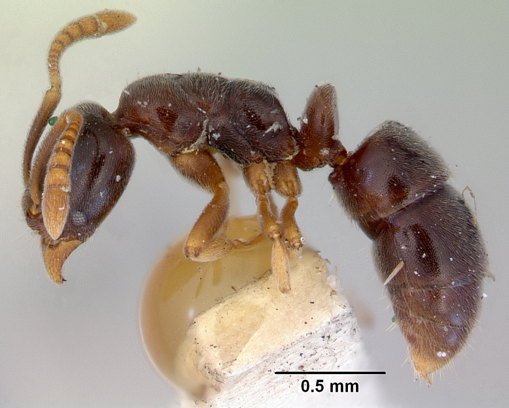 Profile view of ant Hypoponera eduardi specimen casent0172334.